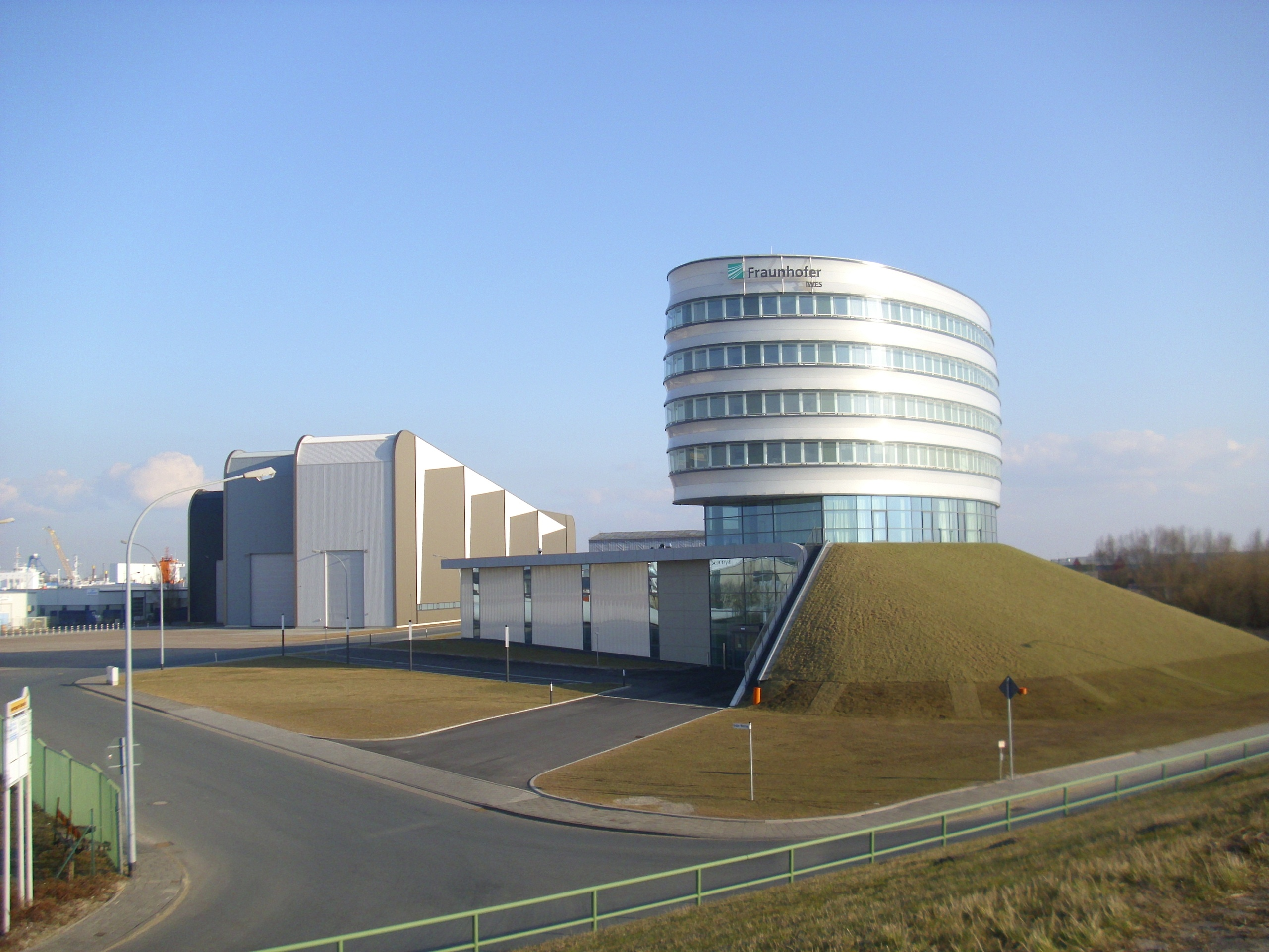 The Fraunhofer IWES institute for wind energy and energy systems technology in Bremerhaven, Germany